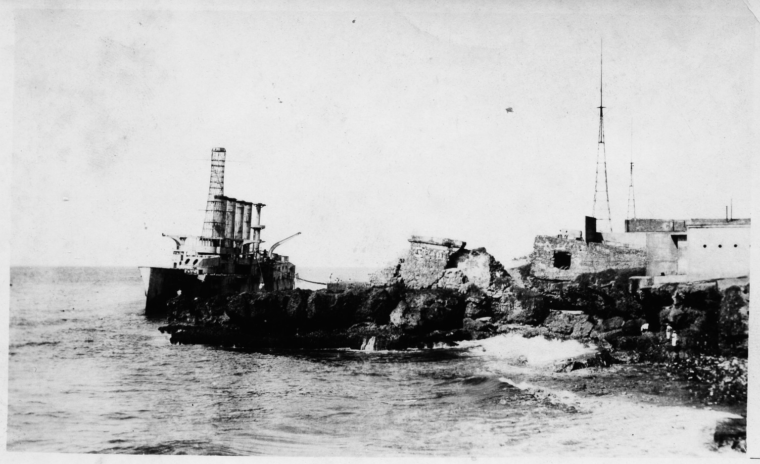 USS Memphis (USS Tennessee) was sunk by a large tidal wave while anchored in the port of Santo Domingo on August 29, 1916. 40 men were killed or missing and 204 were injured. Seen in 1922.